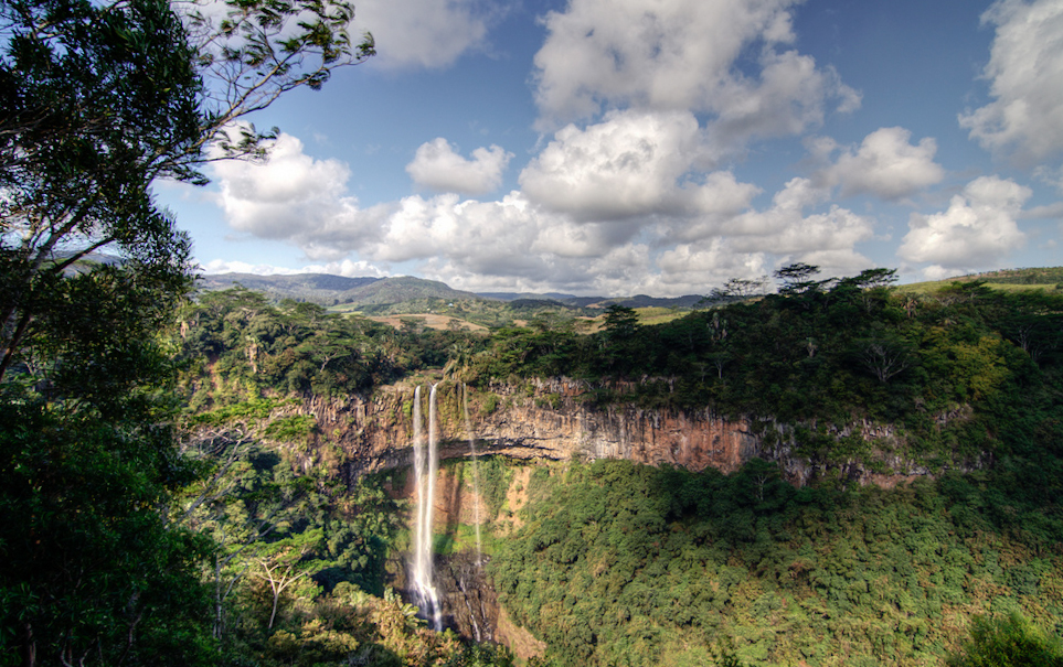 Chamarel Falls, Mauritius island.